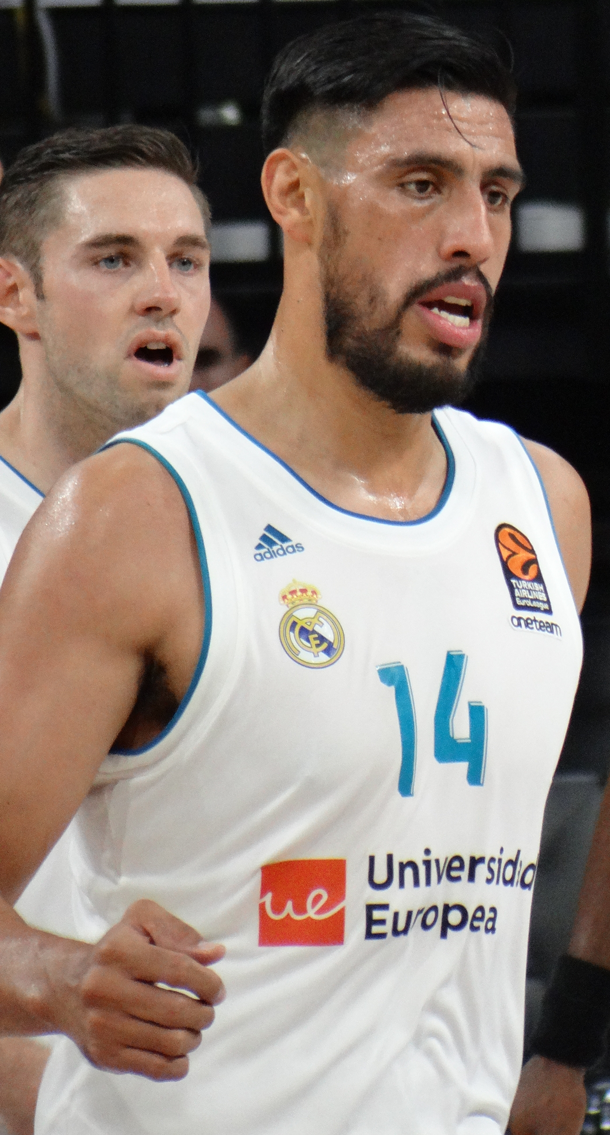 Gustavo Ayón 14 Real Madrid Baloncesto Euroleague 20171012